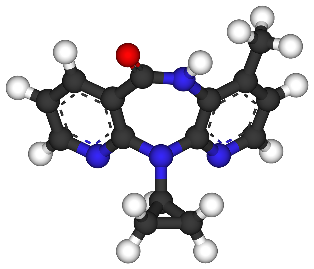 Ball-and-stick model of nevirapine. Created using Accelrys DS Visualizer Pro 1.7 and GIMP. Optimized with OptiPNG.